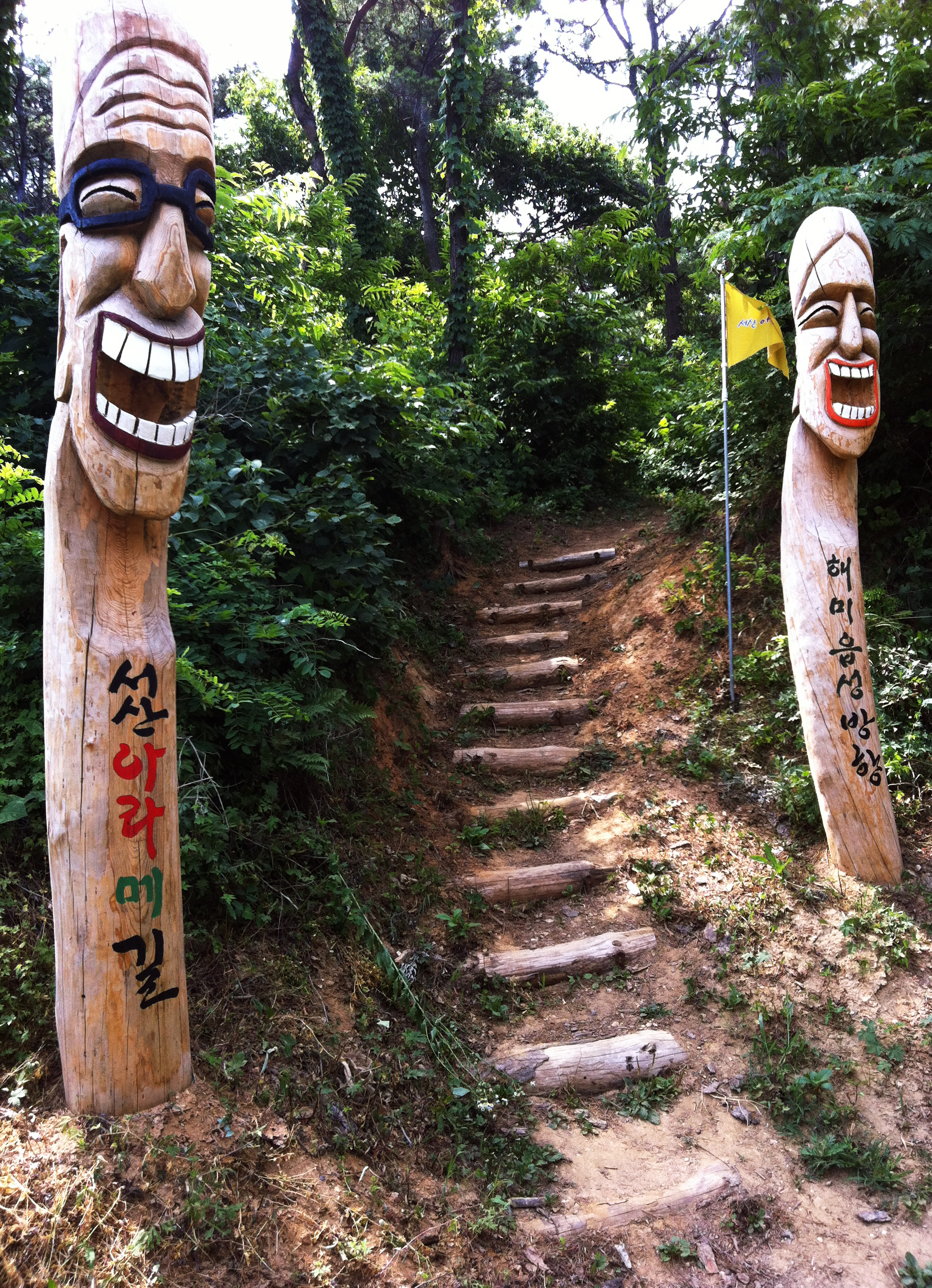 10 best walking trails in Korea Arame trail (Seosan, Chungnam) (Photo by Ministry of Public Administration and Security) KOCIS 행정안전부가 선정한 녹색길 베스트 10 서산 아라메길 (충남 서산시) 사진제공 - 행정안전부 문화체육관광부 해외문화홍보원